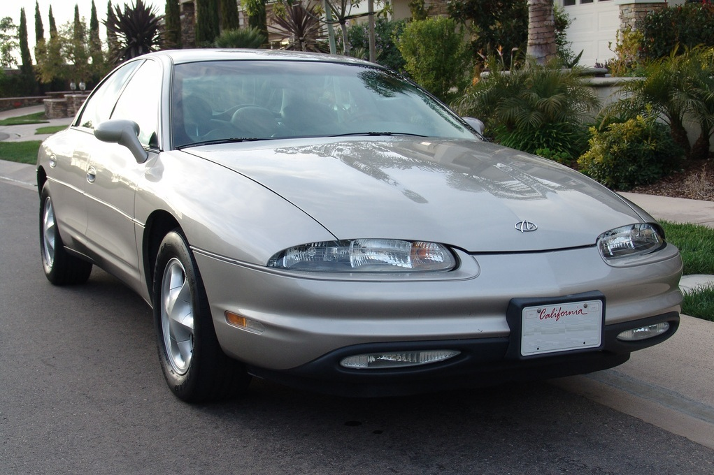 1997 Oldsmobile Aurora V8, front view